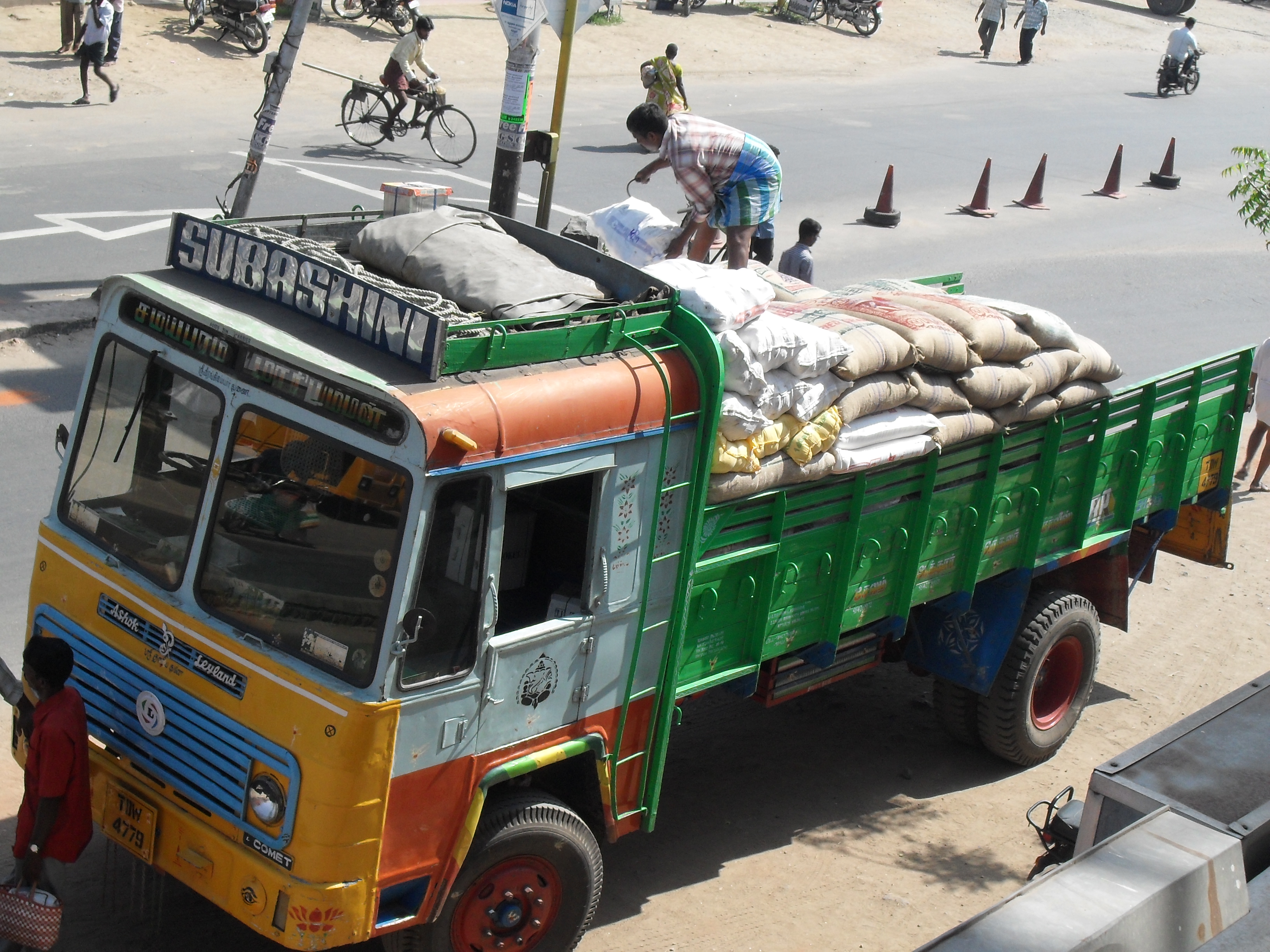 a lorry carrying goods in Tamil Nadu